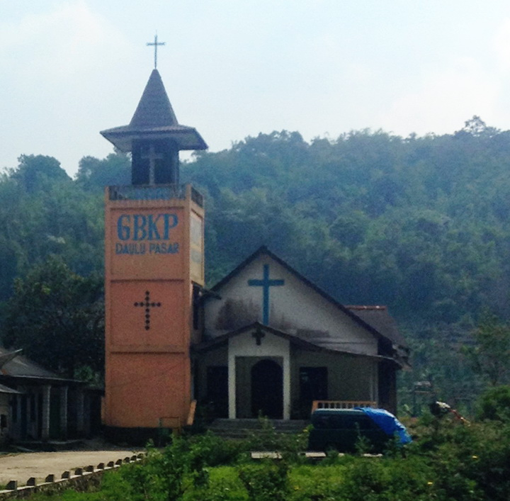 GBKP Rg. Doulu Pasar, Klasis Berastagi, Church in Doulu, Berastagi, Karo